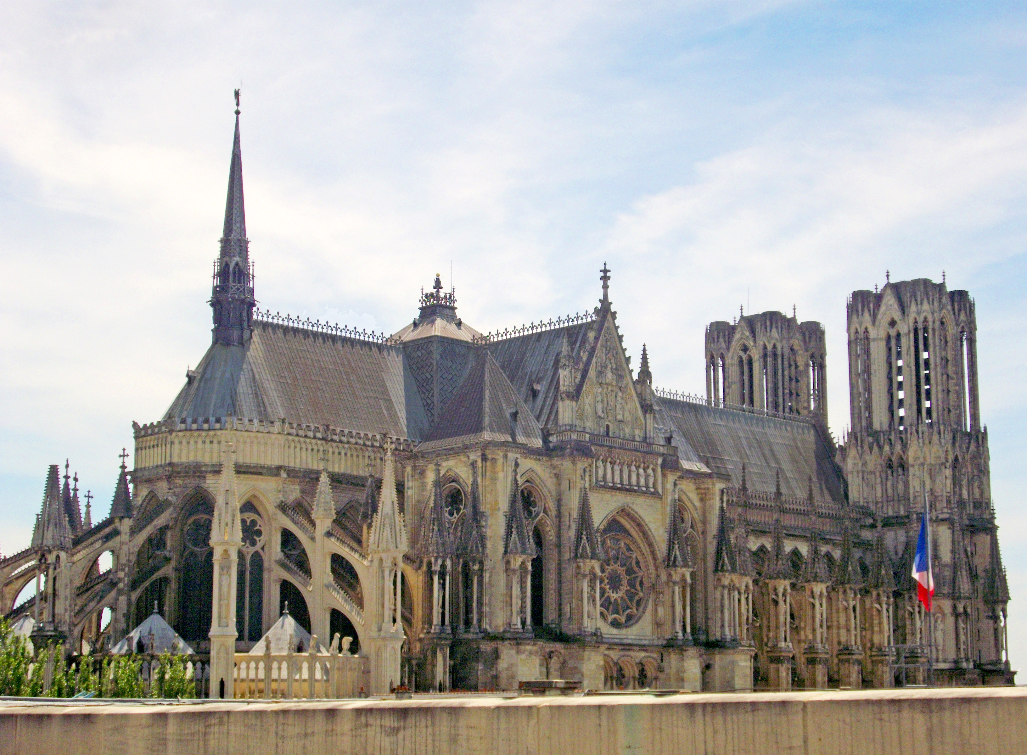 Reims Cathedral, High Gothic, view from north-east